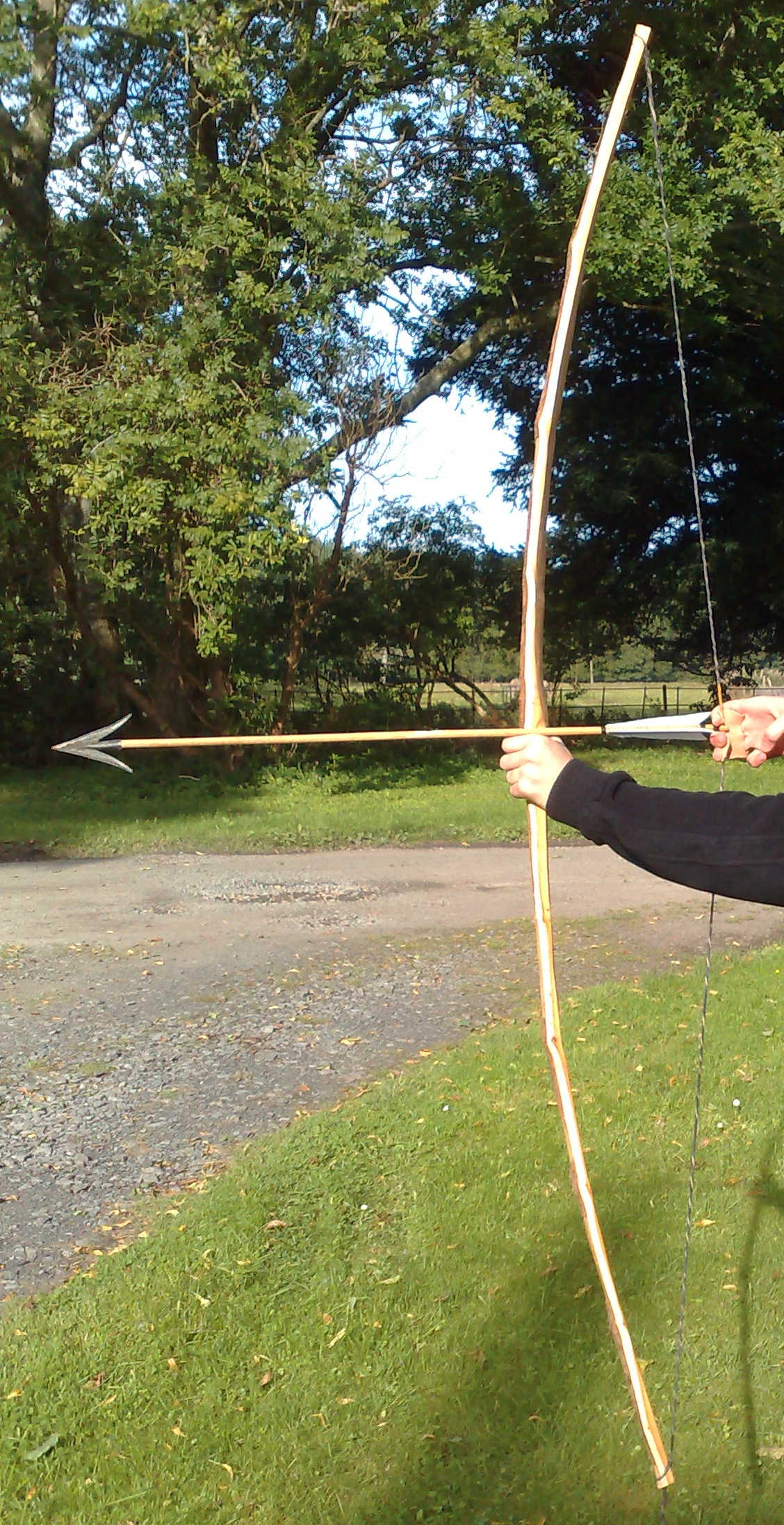 A bow made of straight, but knotty and poor-quality yew wood